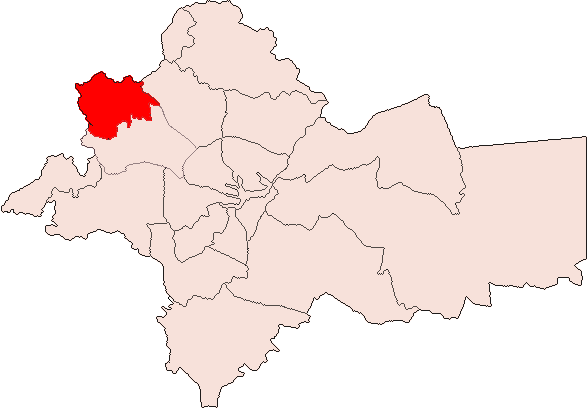 AMMAN-Sweileh.png — Maps of Amman User:Tarawneh/rami